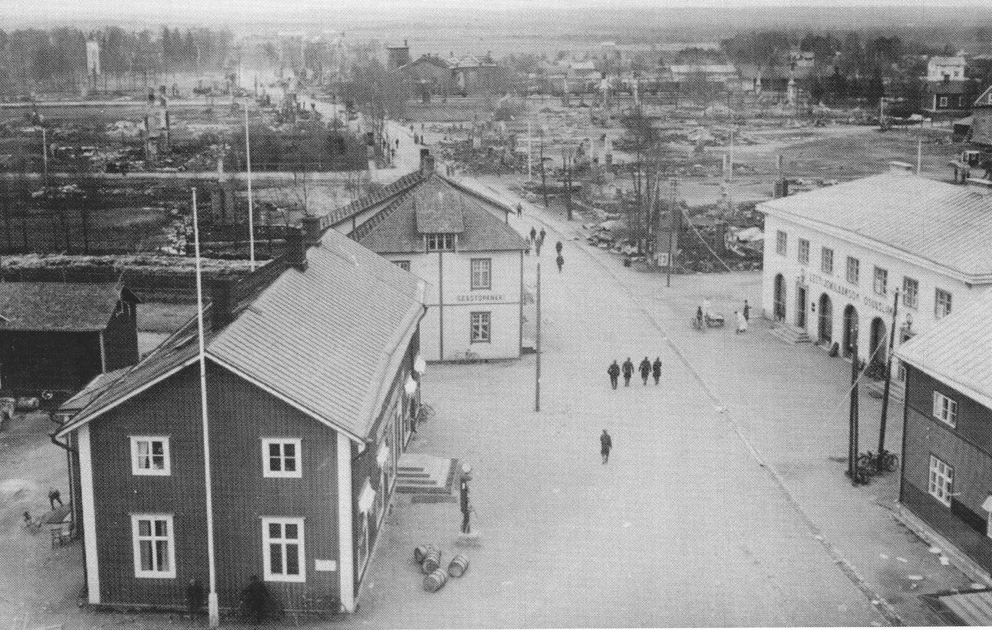 Fire in Kannus year 1934